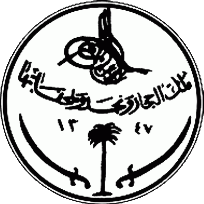 Kingdom of Hejaz and Nejd 1926–1932